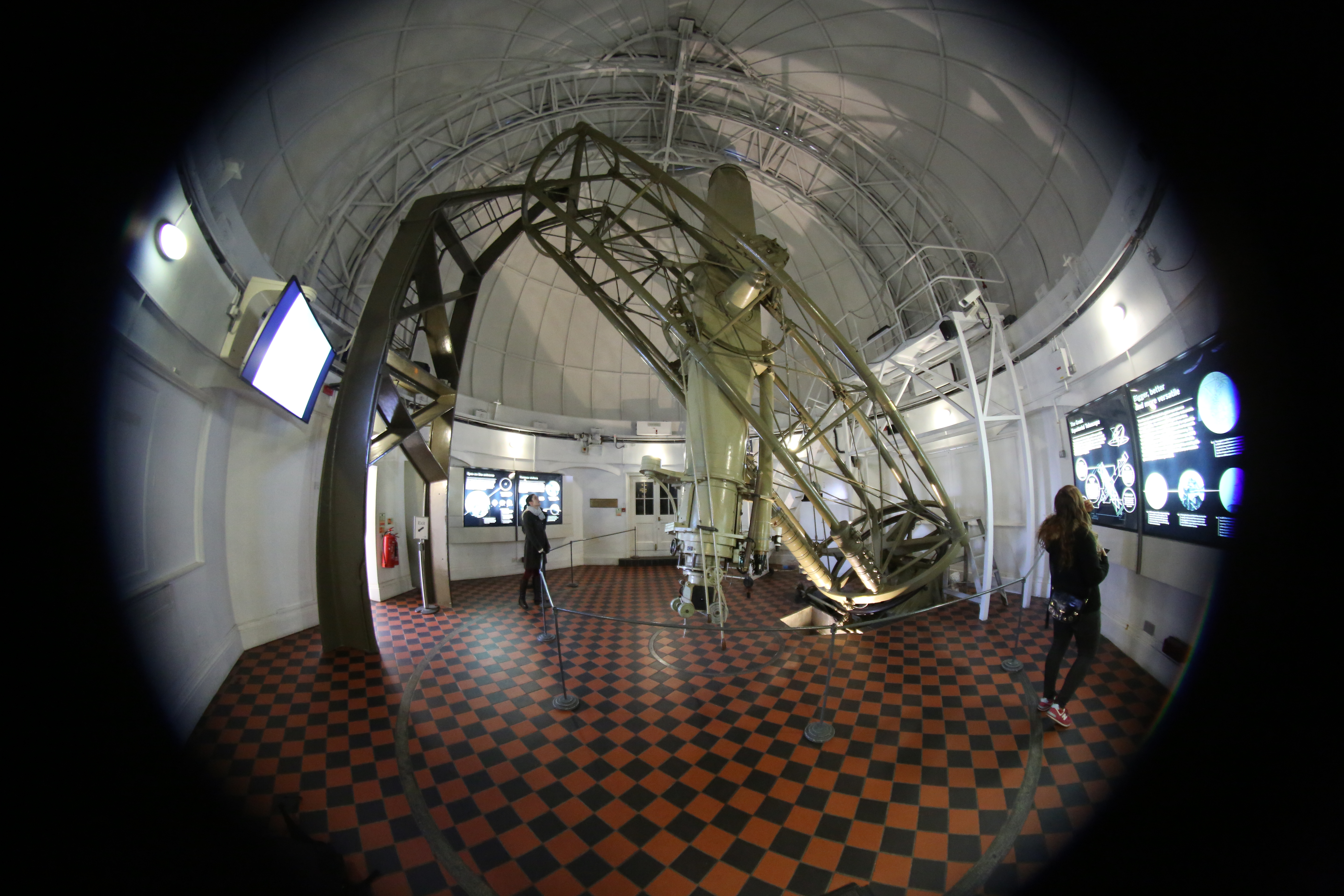 28-inch Great Equatorial Telescope at Greenwich